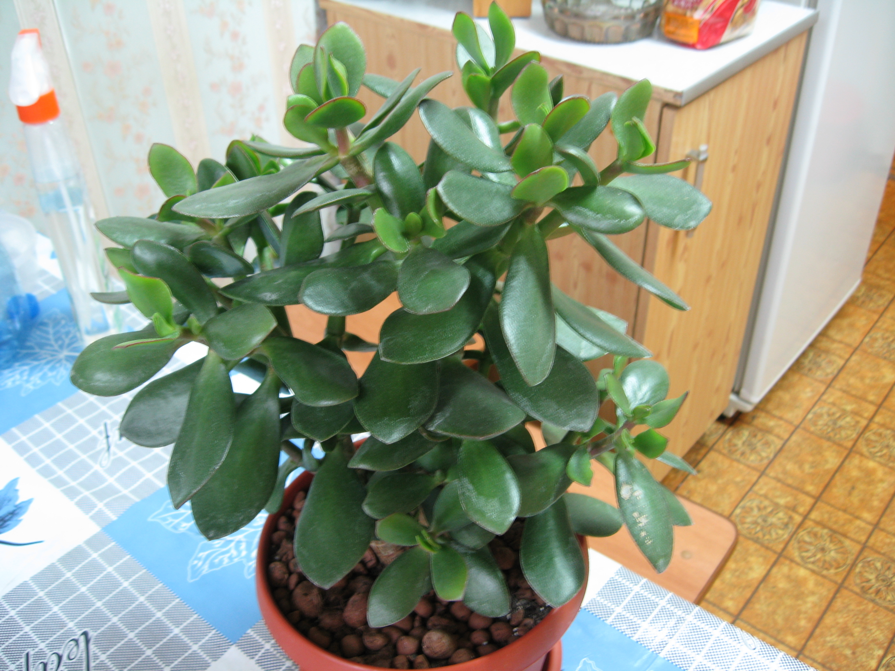 Crassula ovata, Jade plant.